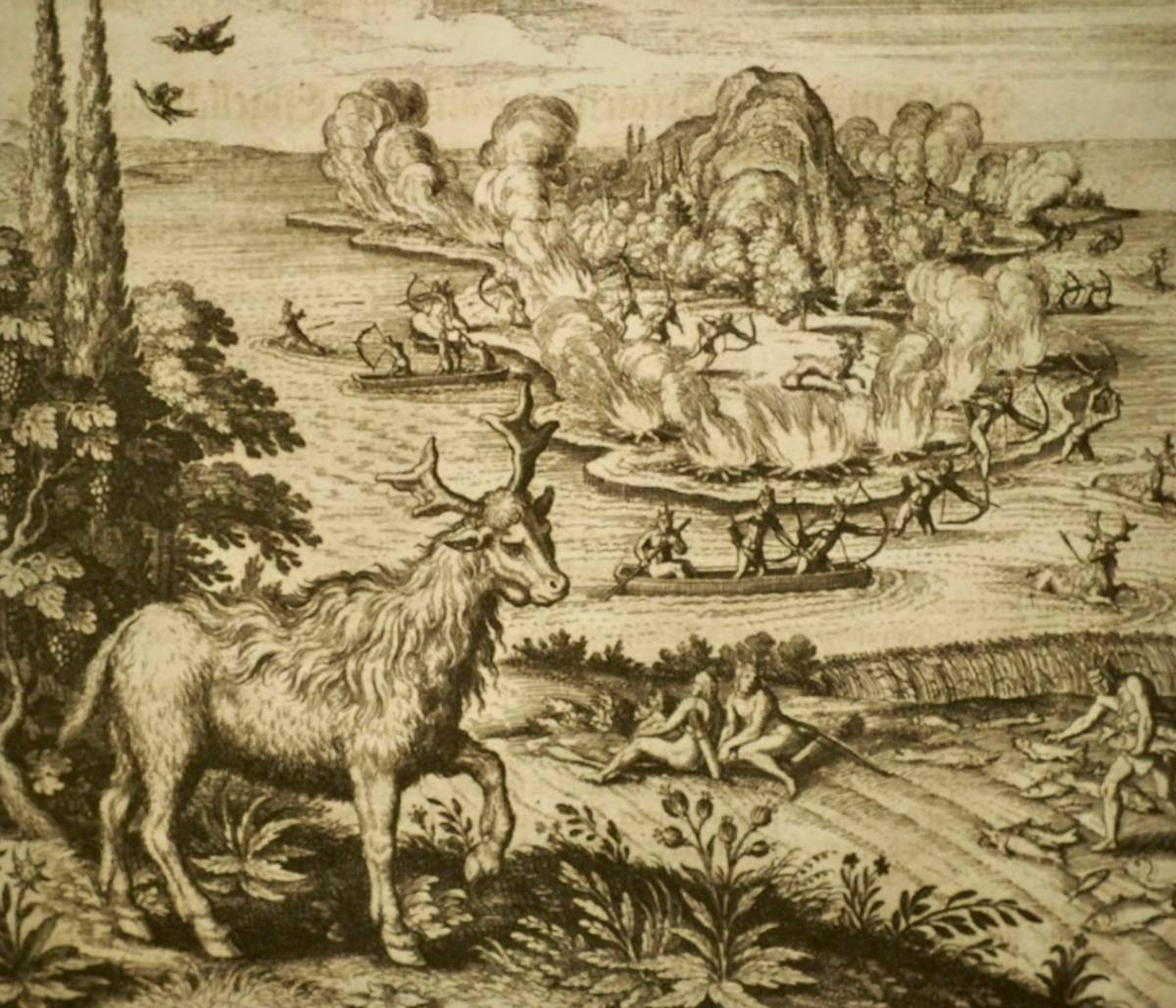 This was an engraving made by Mattheüs Merian (1593-1650) illustrating a description of Abanaki/Wabanaki hunting on Mount Desert Island people from Sir Ferdinando Gorges 1622 "Brief Relation of the Discover and Plantation of New England"